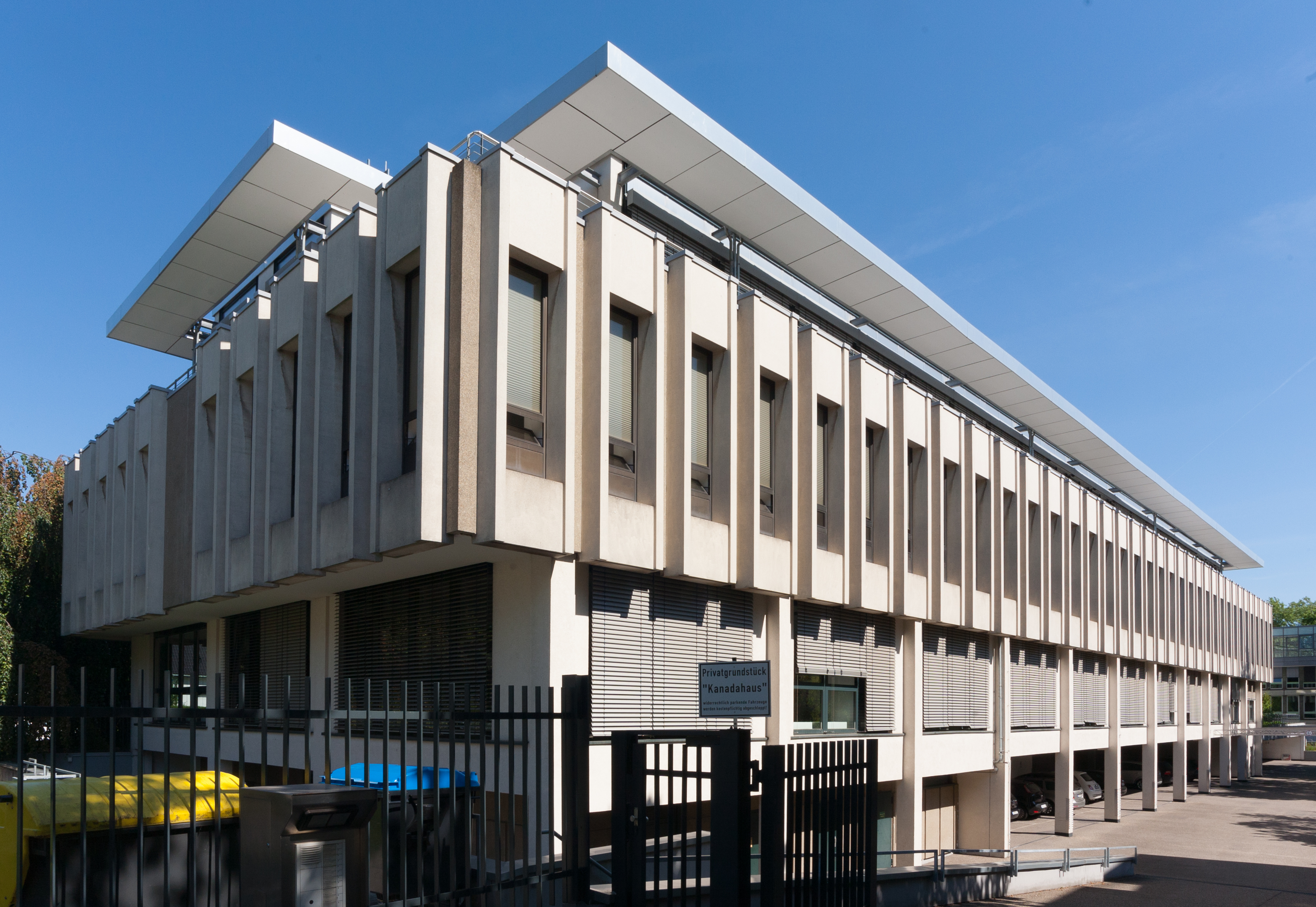 infas Institute for Applied Social Sciences, Friedrich-Wilhelm-Straße 18, Bonn, Germany